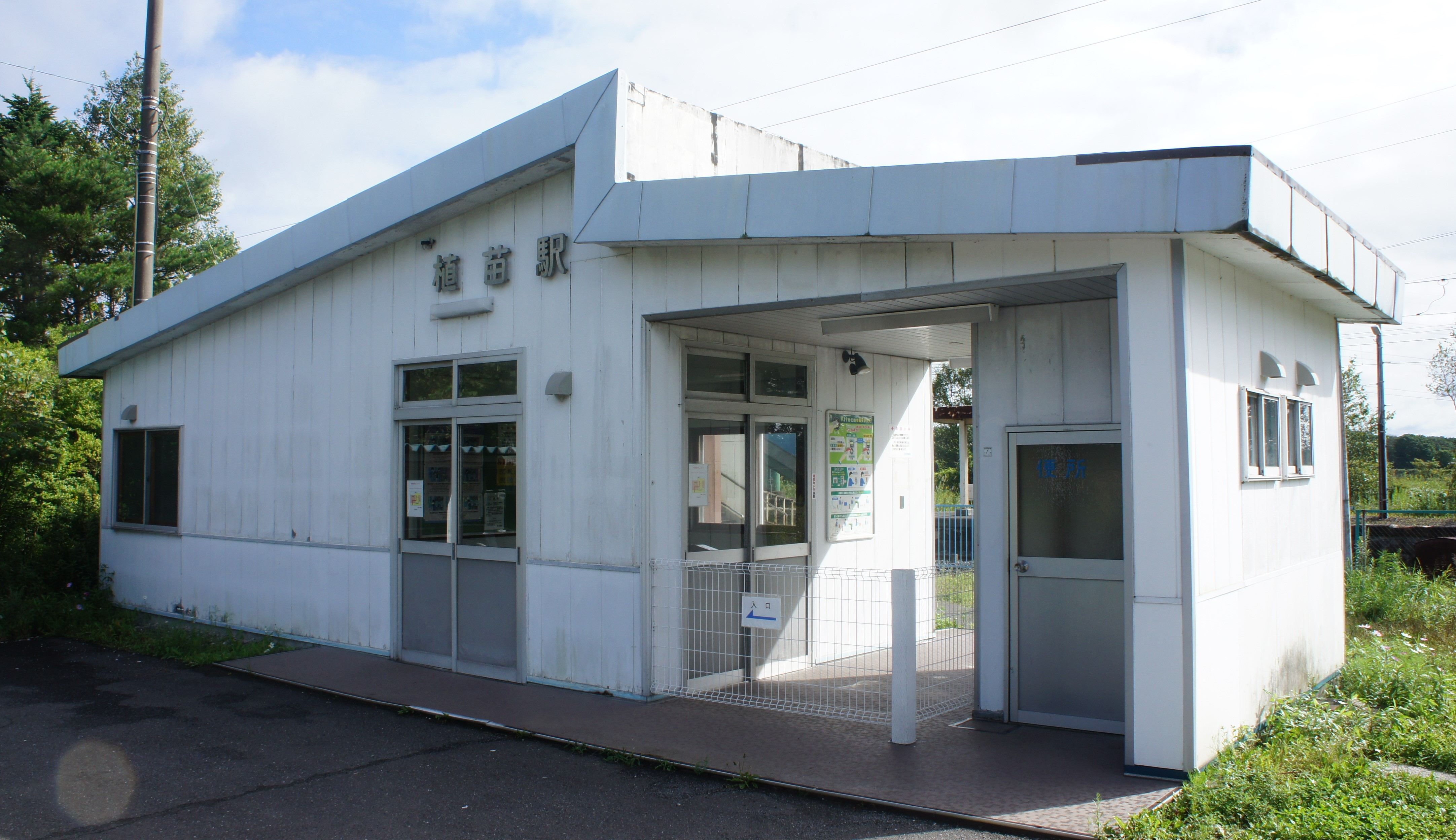 Station building of JR Chitose-Line Uenae Station